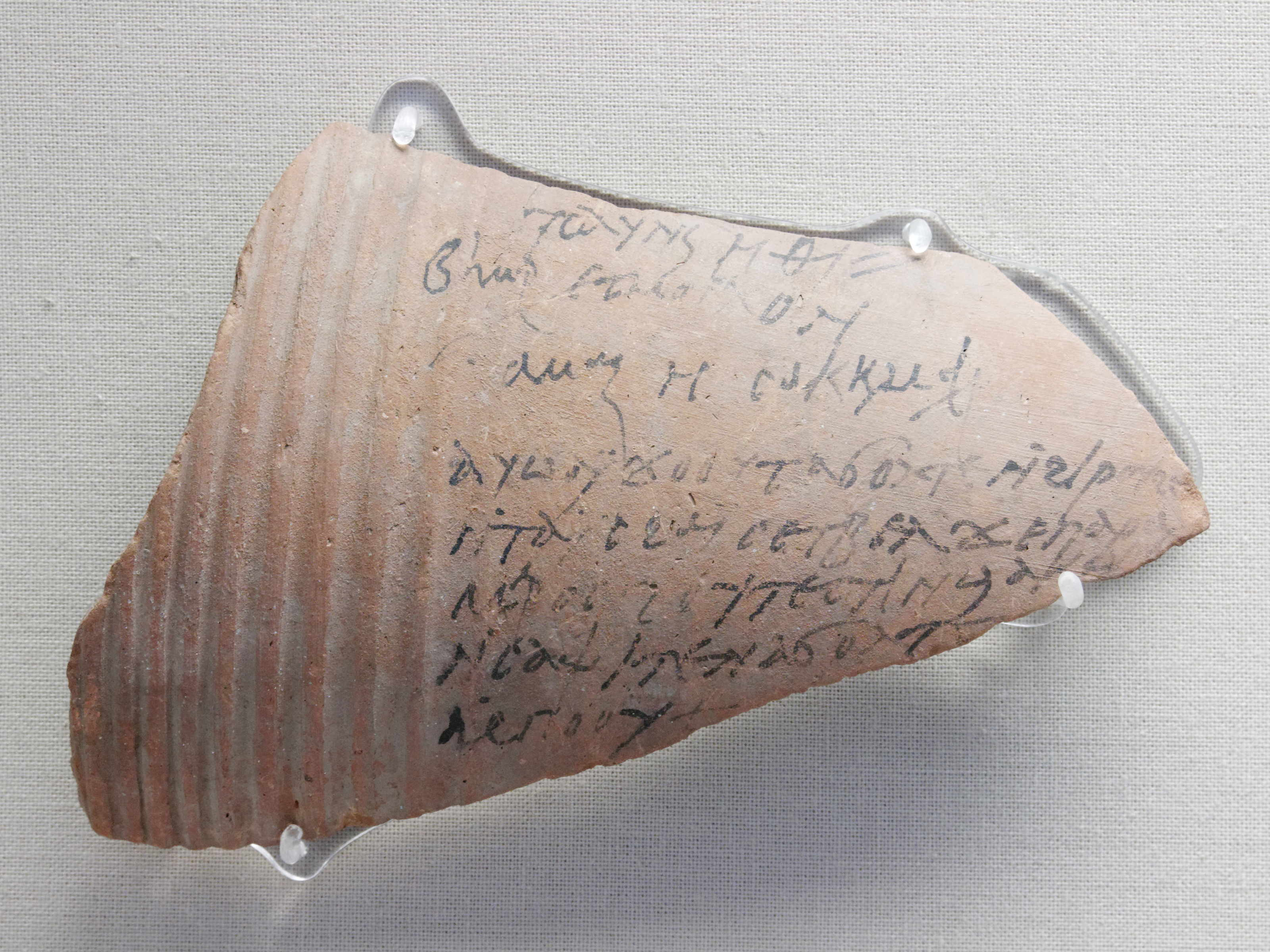 Fragment of a wine-jar with a Coptic inscription recording the transport of nine cartloads of wheat (over 5200 litres) to be ground at the mill on 2 June 321 AD. Roman work.